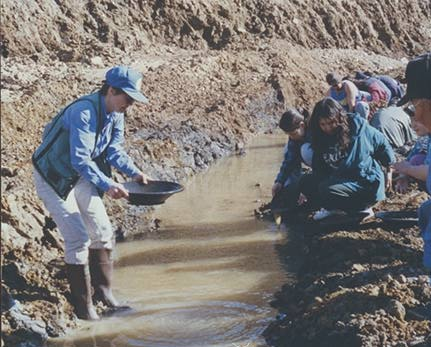 Gold panning